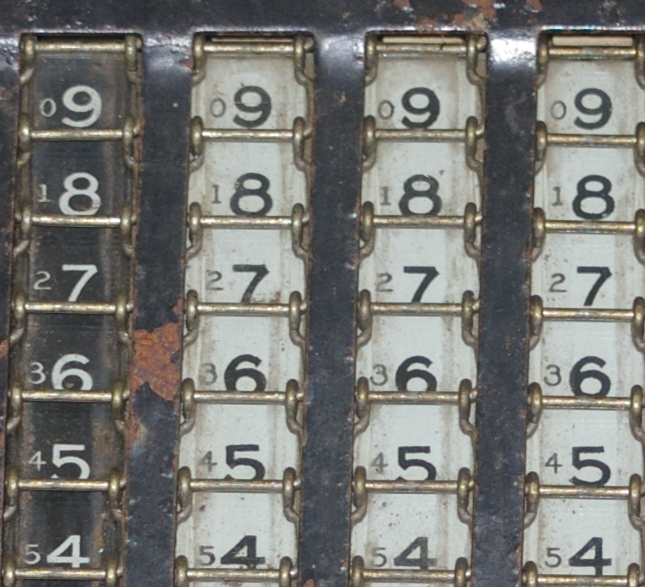 complement number on a Triumph Adding machine c1910